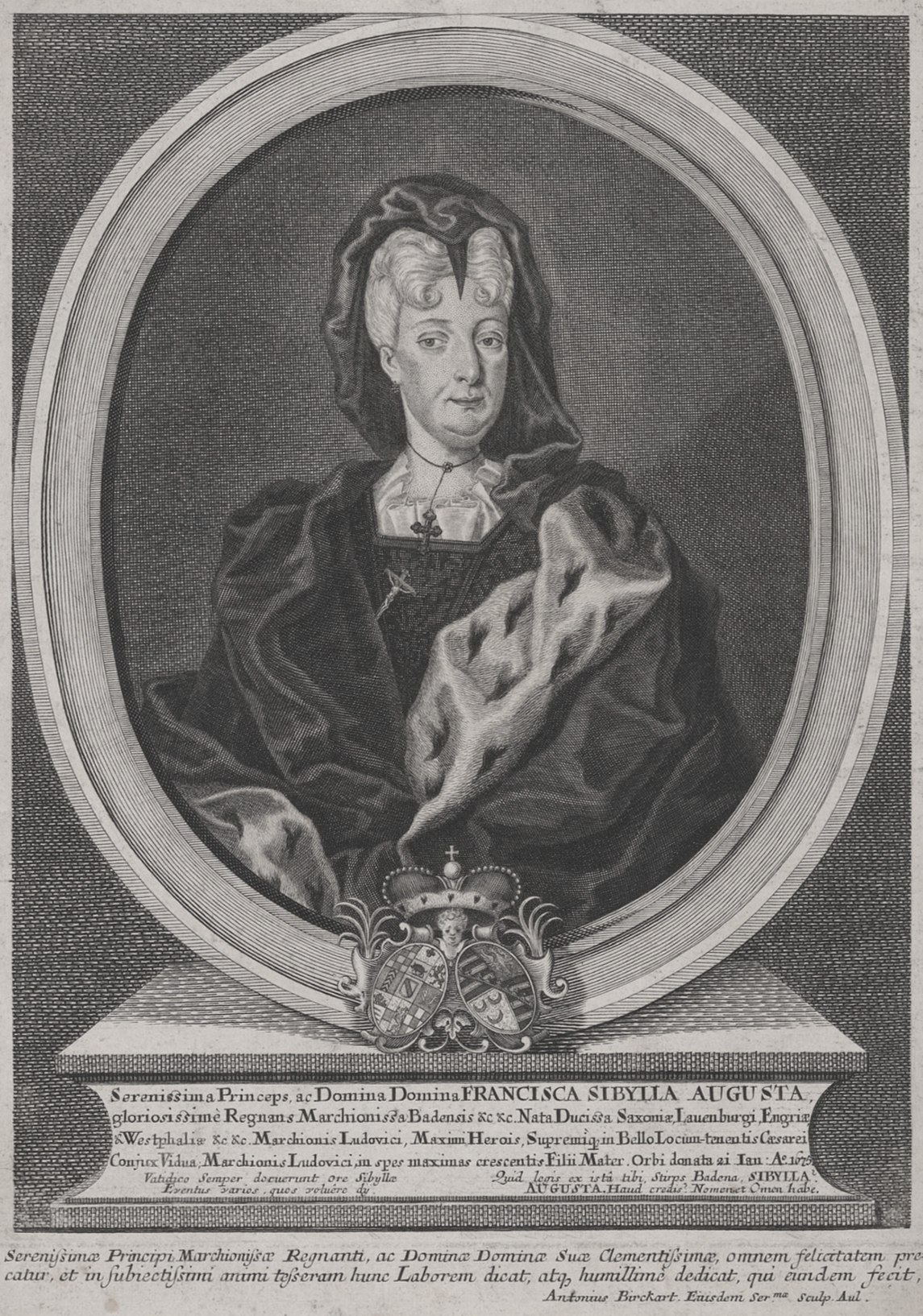 Serenissima Princeps ac Domina Domina FRANCISCA SIBYLLA AUGUSTA